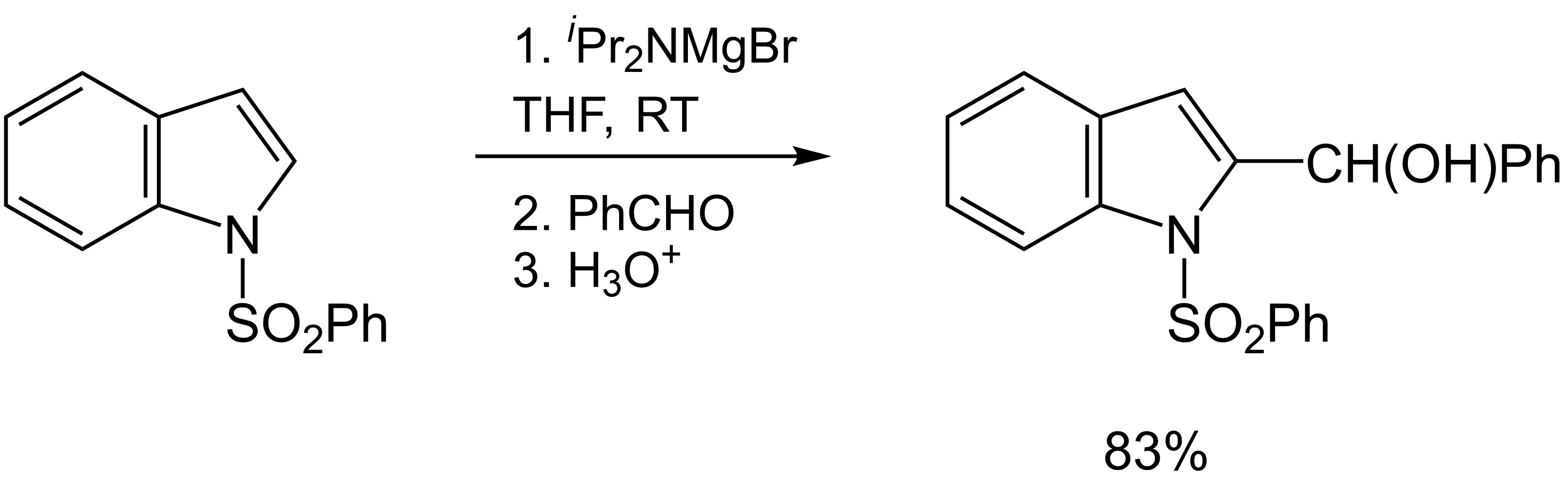 Selective magnesiation of an indole in ortho position followed by the reaction with benzaldehyde give the substituted indole.